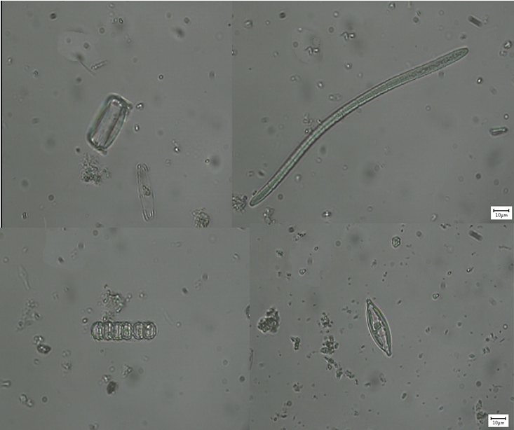 Microbenthos phytobenthos diatoms